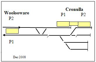 Cronulla Railway Station Track Diagram